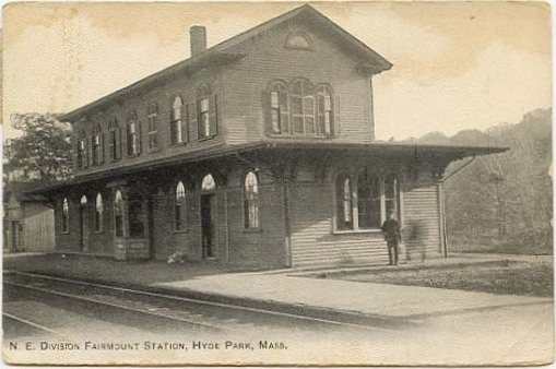 Early divided back postcard of the Fairmount station in Hyde Park, Massachusetts